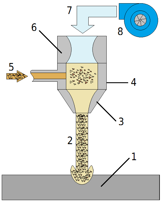 AJM scheme. 1. Workpiece 2. Abrasive jet 3. Convergent exit nozzle 4. Mixing chamber 5. Abrasive grit 6. Convergent-divergent inlet nozzle 7.Compressed air 8. Compressor